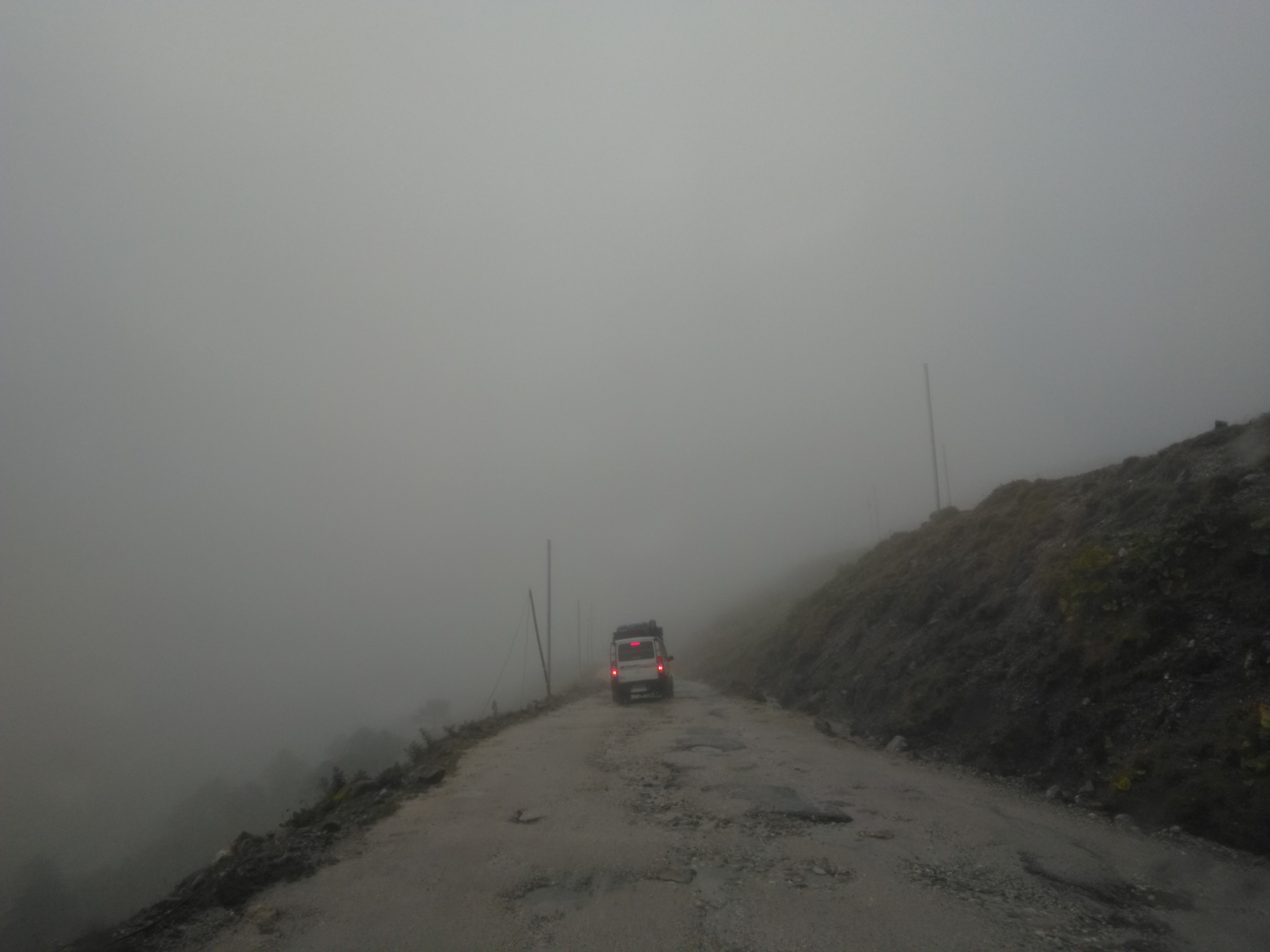 Tata Sumo negotiating Sela Pass